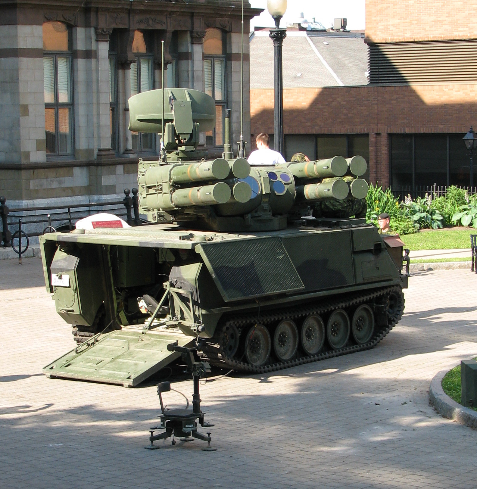 Canadian Air-Defense, Anti-Tank System (ADATS) on display during the Royal Nova Scotia International Tattoo, 2008.